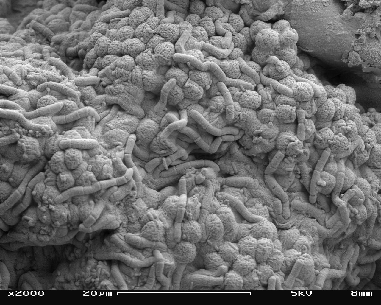 Algae and bacteria in Scanning Electron Microscope, magnification 2000x